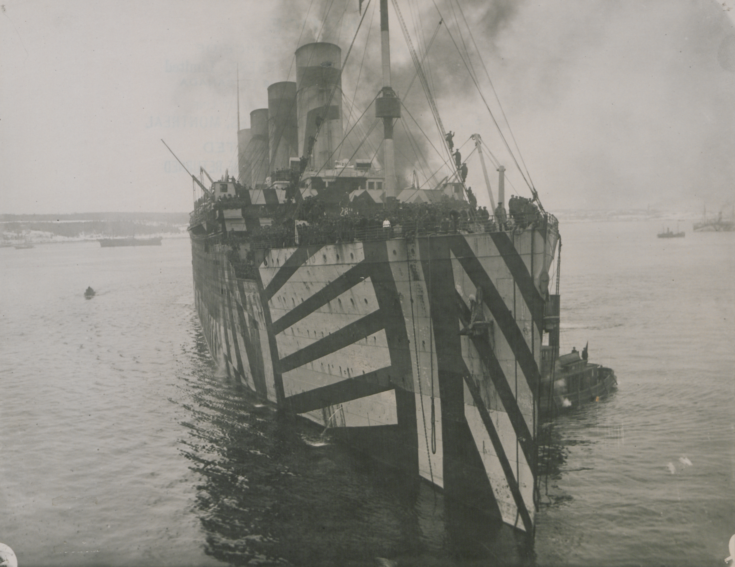 Original caption: "Olympic pictures"